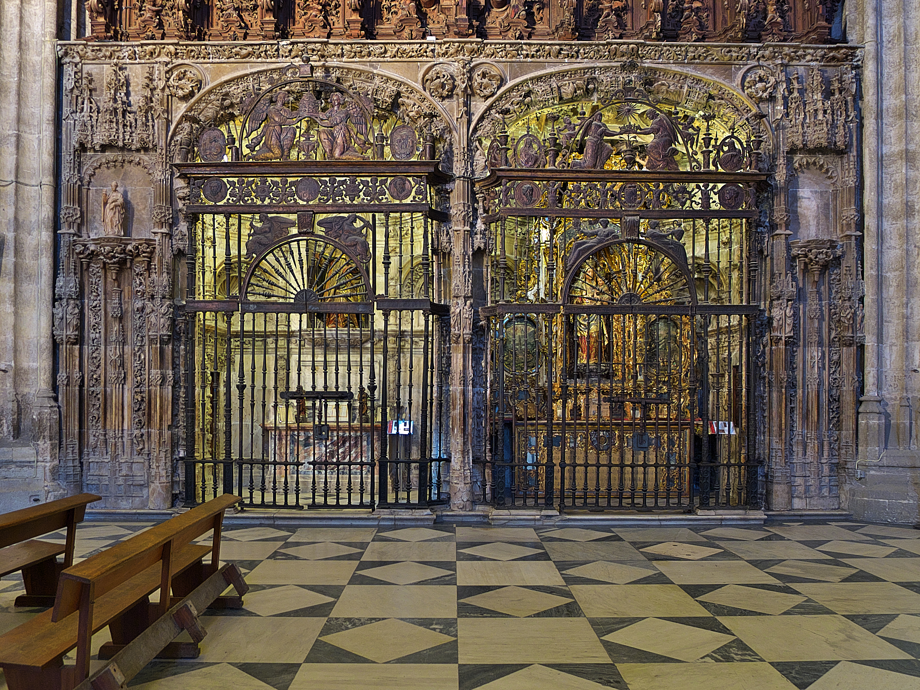 Chapel of St. Gregory (left) and Chapel of Our Lady "de la Estrella" (right)